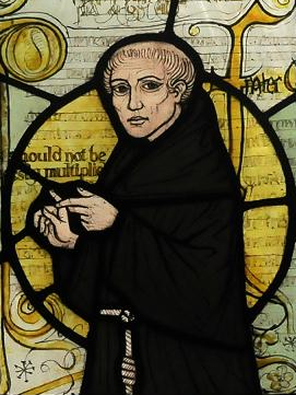 William of Ockham, from stained glass window at a church in Surrey.